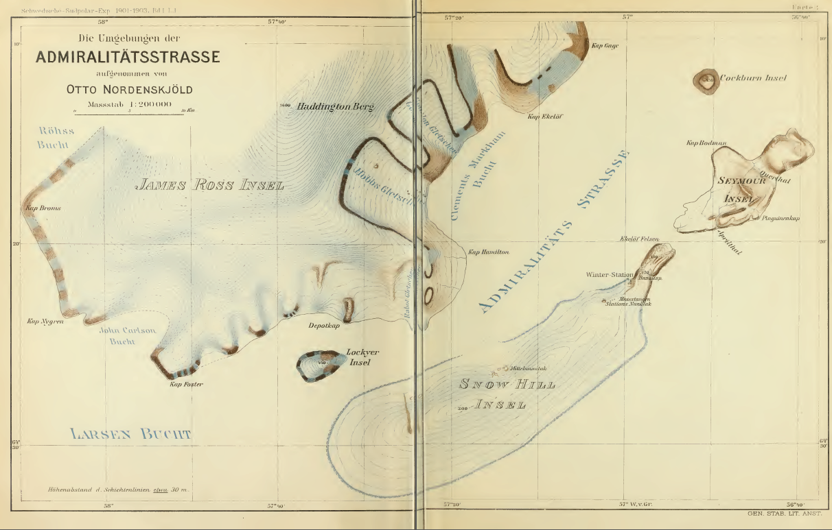 Map of Admiralty Sound, Antarctica, by Otto Nordenskjöld (1869-1928)